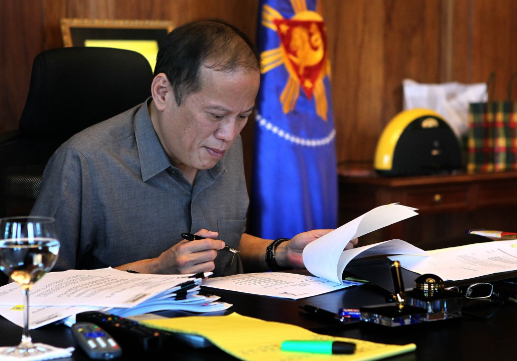 A press photo distributed by Office of the President of the Philippines on March 15, 2012. This time period was during the start of the Noynoying protests, although representatives of the Office claim the photo is published to counter the protesters.